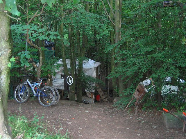 Road protest, Bilston Glen. Protest camp trying to hold up the proposed Bilston By-pass. In woods on the edge of Bilston Glen. Camps like this were a common sight in the 1990's and helped prevent/delay several projects. With authoritarian rule and more and more laws being passed aimed at social control, they are becoming a rarer sight.